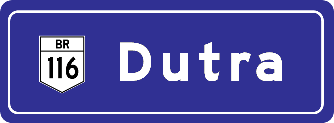 Dutra Highway Sign - Sao Paulo - Rio de Janeiro - Brazil.